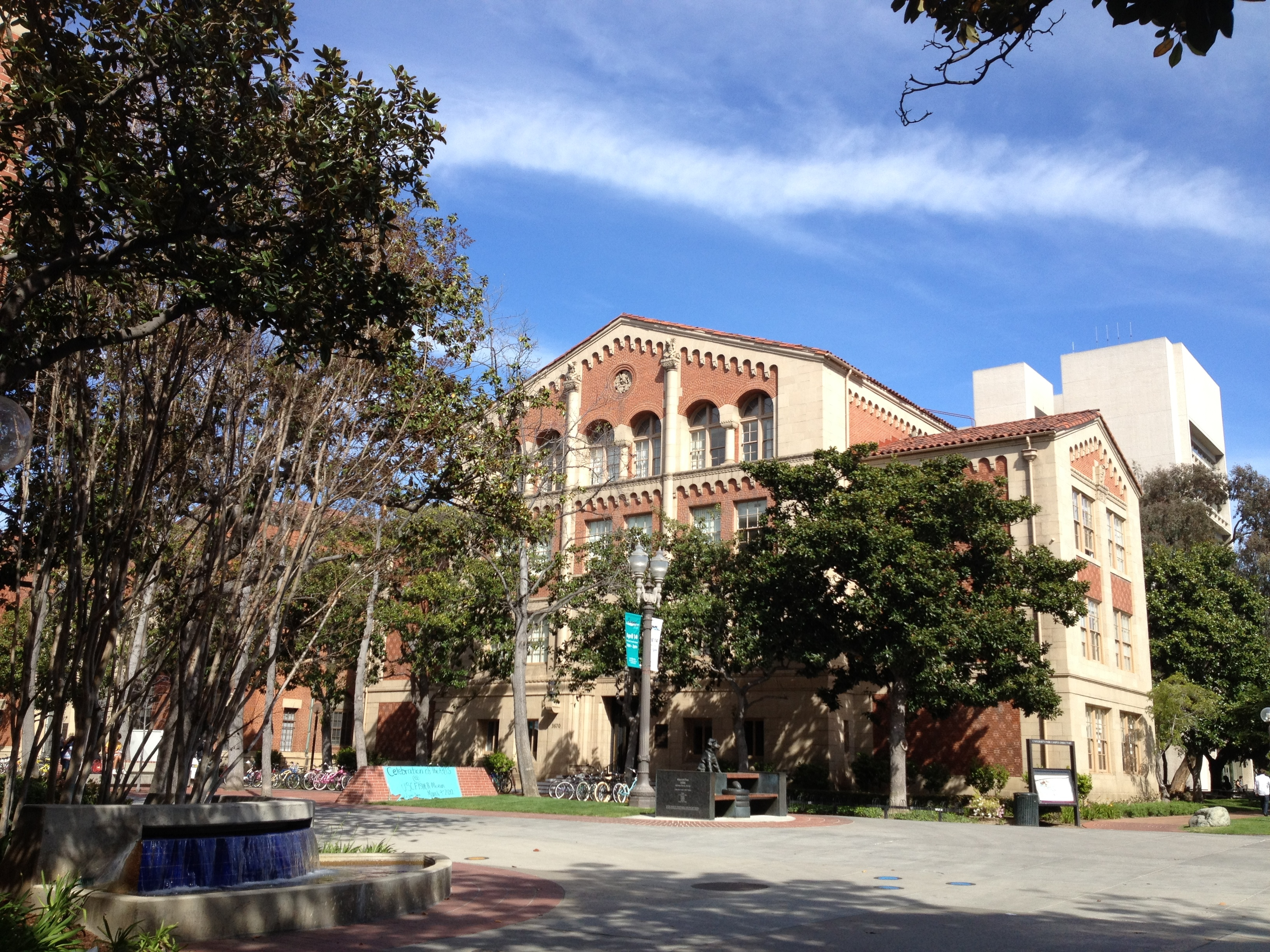 Bridge Hall